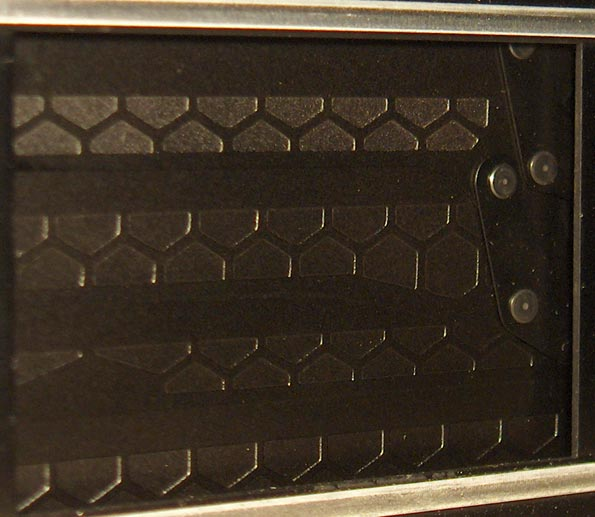 The titanium honeycomb shutter featured in the Nikon FA and other Nikon cameras.